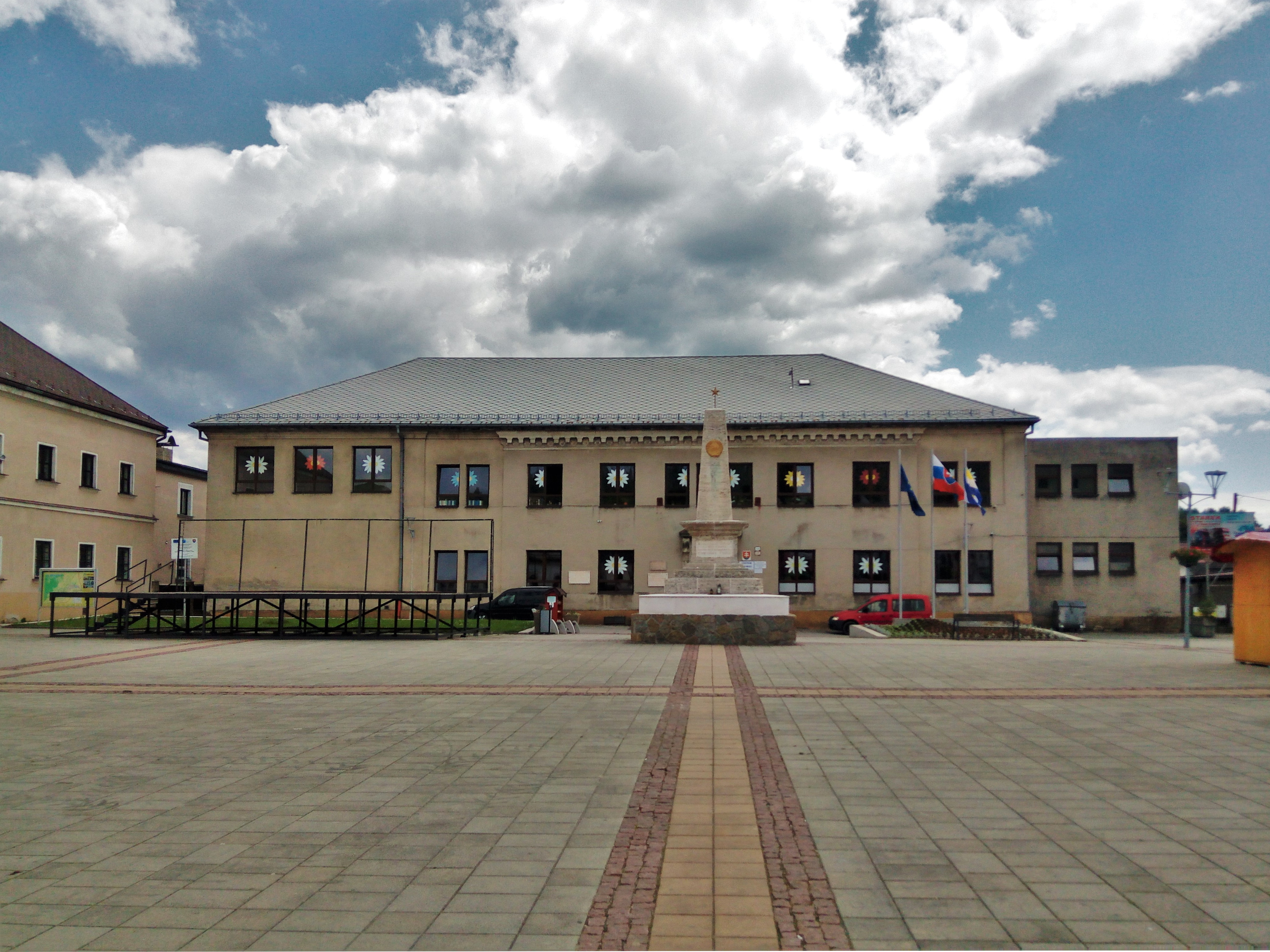 Red Army Monument and former gymnasium, now Leisure Centre, in Trstená, Slovakia.